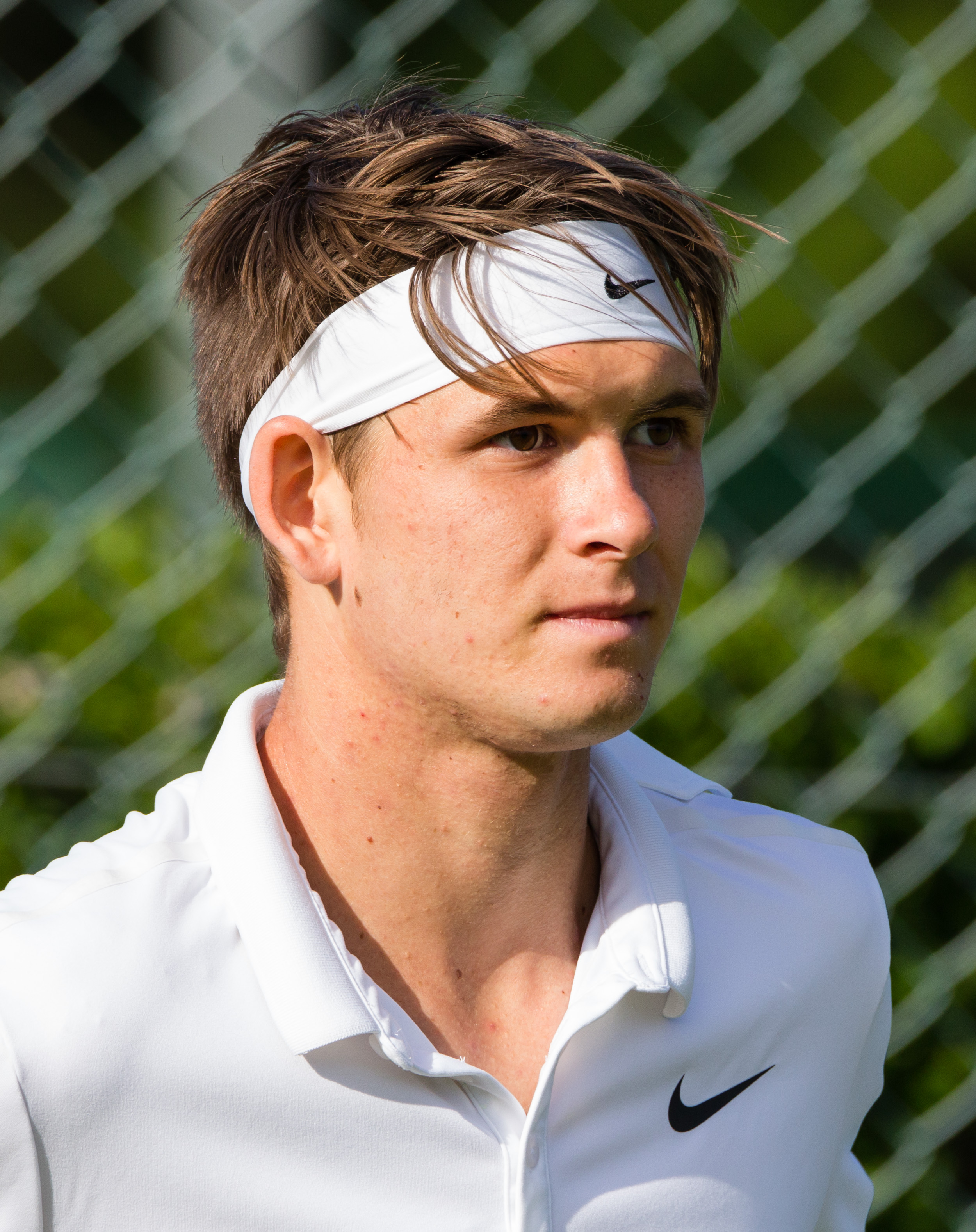 Jared Donaldson competing in the first round of the 2015 Wimbledon Qualifying Tournament at the Bank of England Sports Grounds in Roehampton, England. The winners of three rounds of competition qualify for the main draw of Wimbledon the following week.